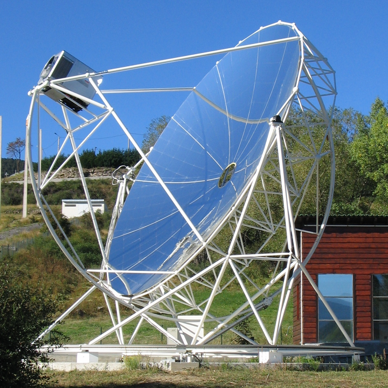 DISH-STIRLING Research Project in Font-Romeu-Odeillo, France.